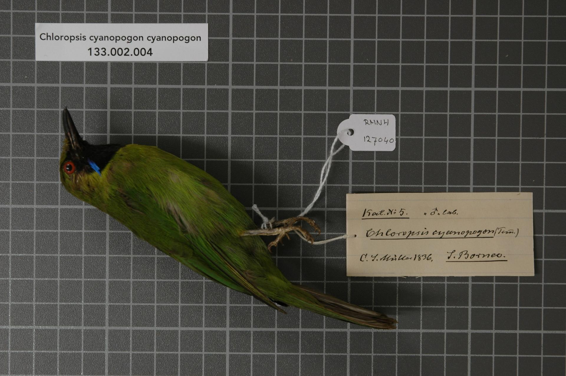 Chloropsis cyanopogon cyanopogon (Temminck, 1829)